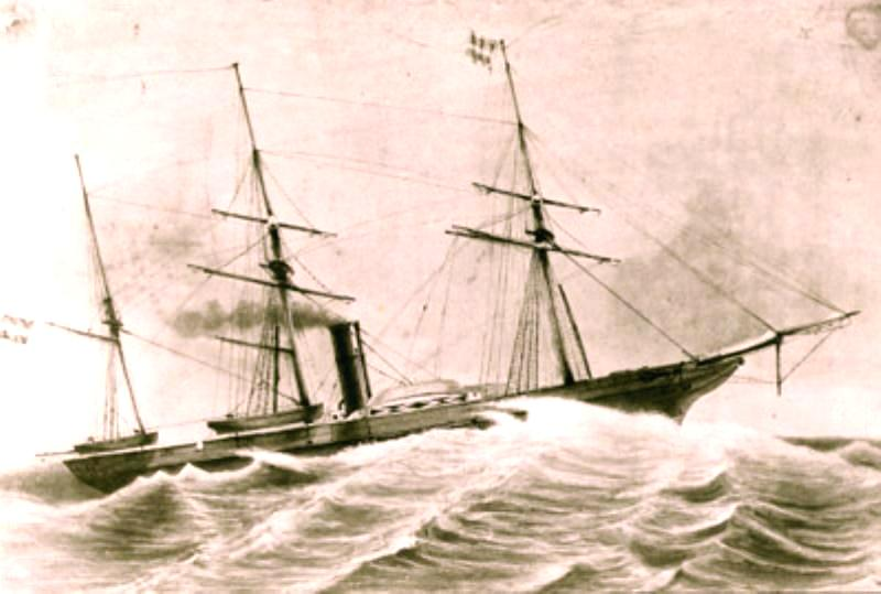 Zr. Ms. stoomschip Merapi